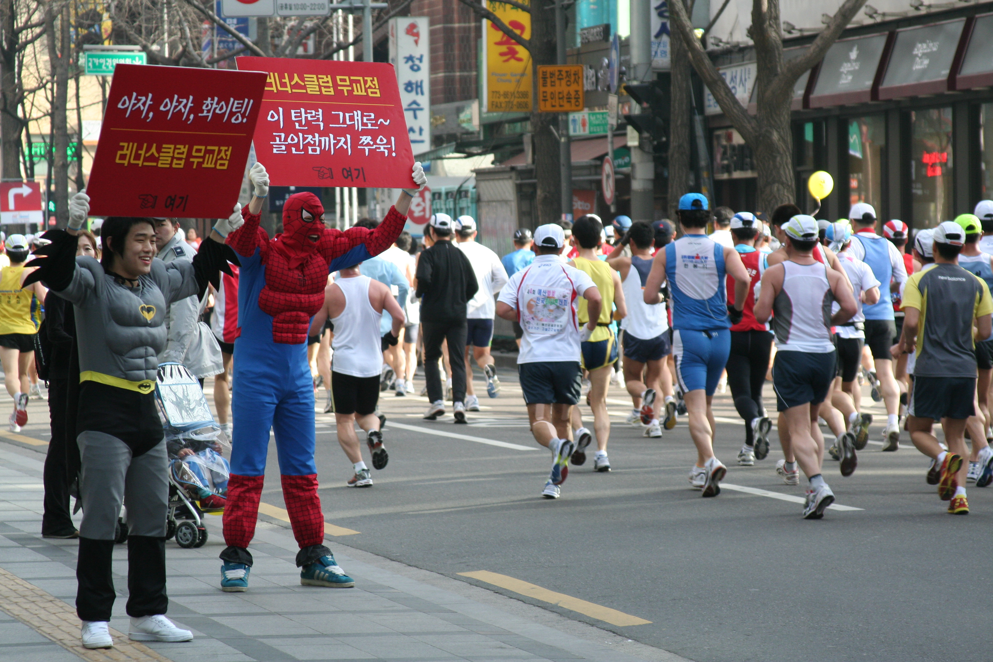 Batman and Spiderman urge on their friends in the race. (In another example of dual identity, we also saw a Batman running in the marathon - not sure who else was there.)